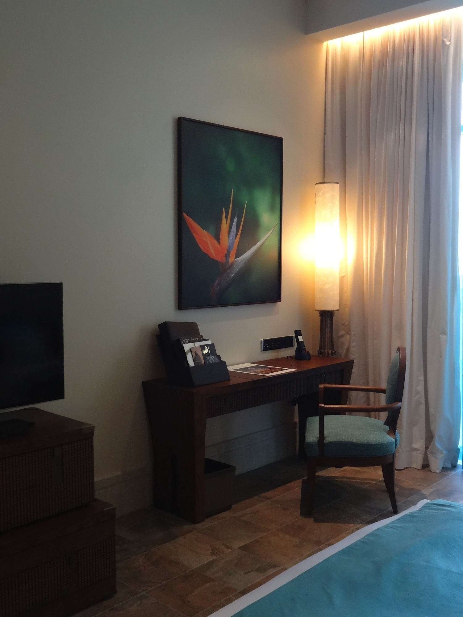 Hotel Sofitel Dubai The Palm Luxury Apartments